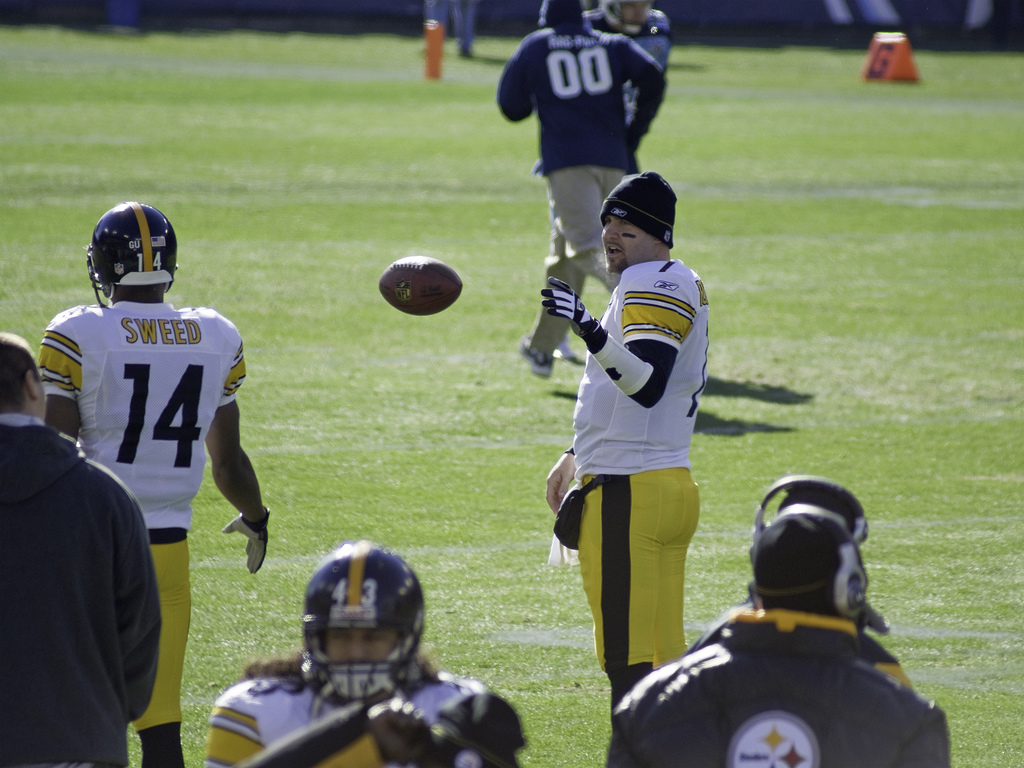 Pittsburgh Steelers players Ben Roethlisberger, Limas Sweed (14), and Troy Polamalu (43) prior to a 2008 game.